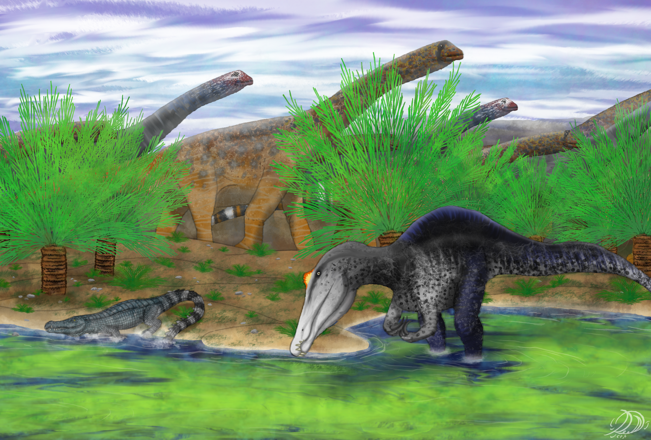 Restoration of the spinosaurid dinosaur Siamosaurus in the Sao Khua Formation palaeoenvironment, with Sunosuchus in the middle left and a herd of Phuwiangosaurus in the background. References: Siamosaurus based on tooth specimens [1] and the neural spine of a possibly referable skeleton[2], with other missing elements filled in with relatives (Suchomimus[3], Baryonyx[4], IchthyovenatorFile:Ichthyovenator_laosensis_skeletal_reconstruction_by_PaleoGeek.png). Phuwiangosaurus based on skeletal by Suteethorn et al. (2009)[5] and missing elements of skull of EuhelopusFile:Euhelopus.png. Sunosuchus based on Suteethorn and Ingavat (1983)[6] and missing elements based on Goniopholis[7].